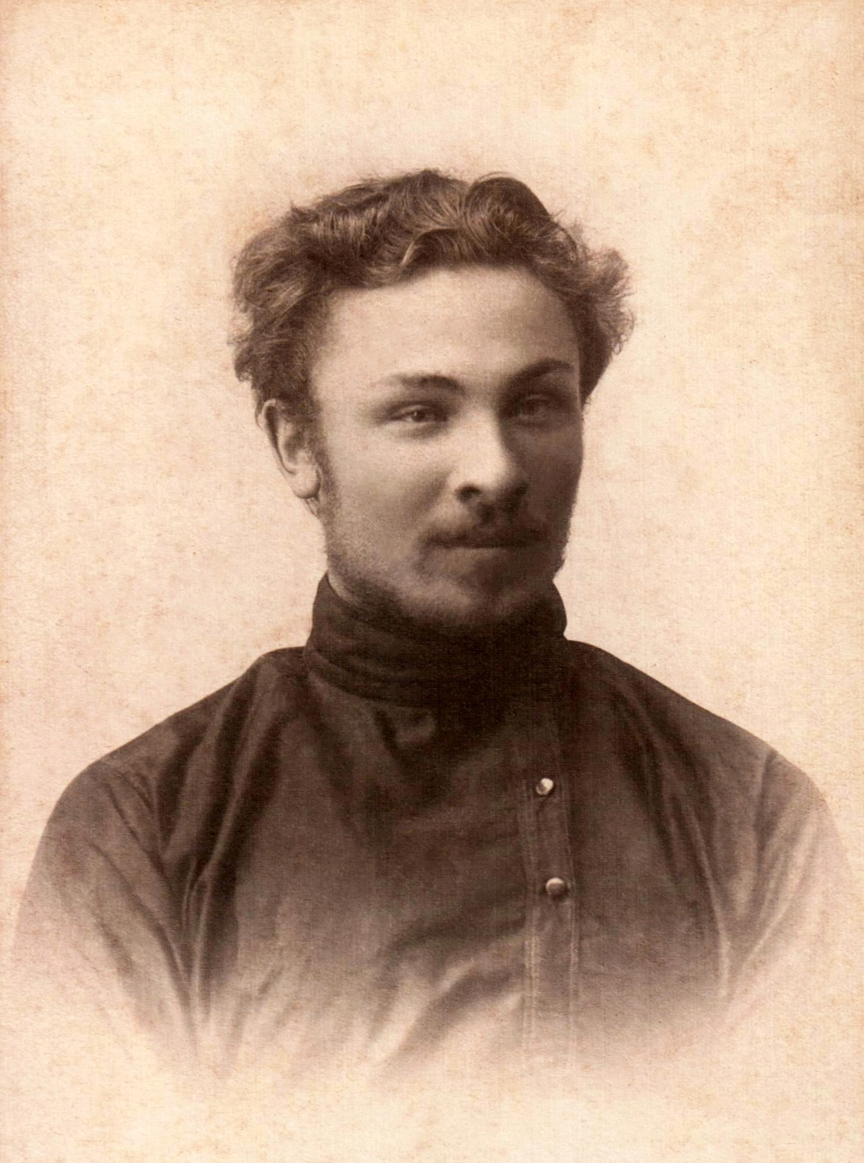 Emanuel Tiesenhausen